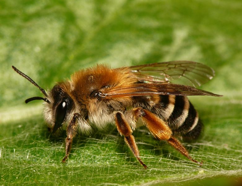 Andrena gravida, female. Location: The Netherlands - Gelderland - Rhenen - Blauwe Kamer